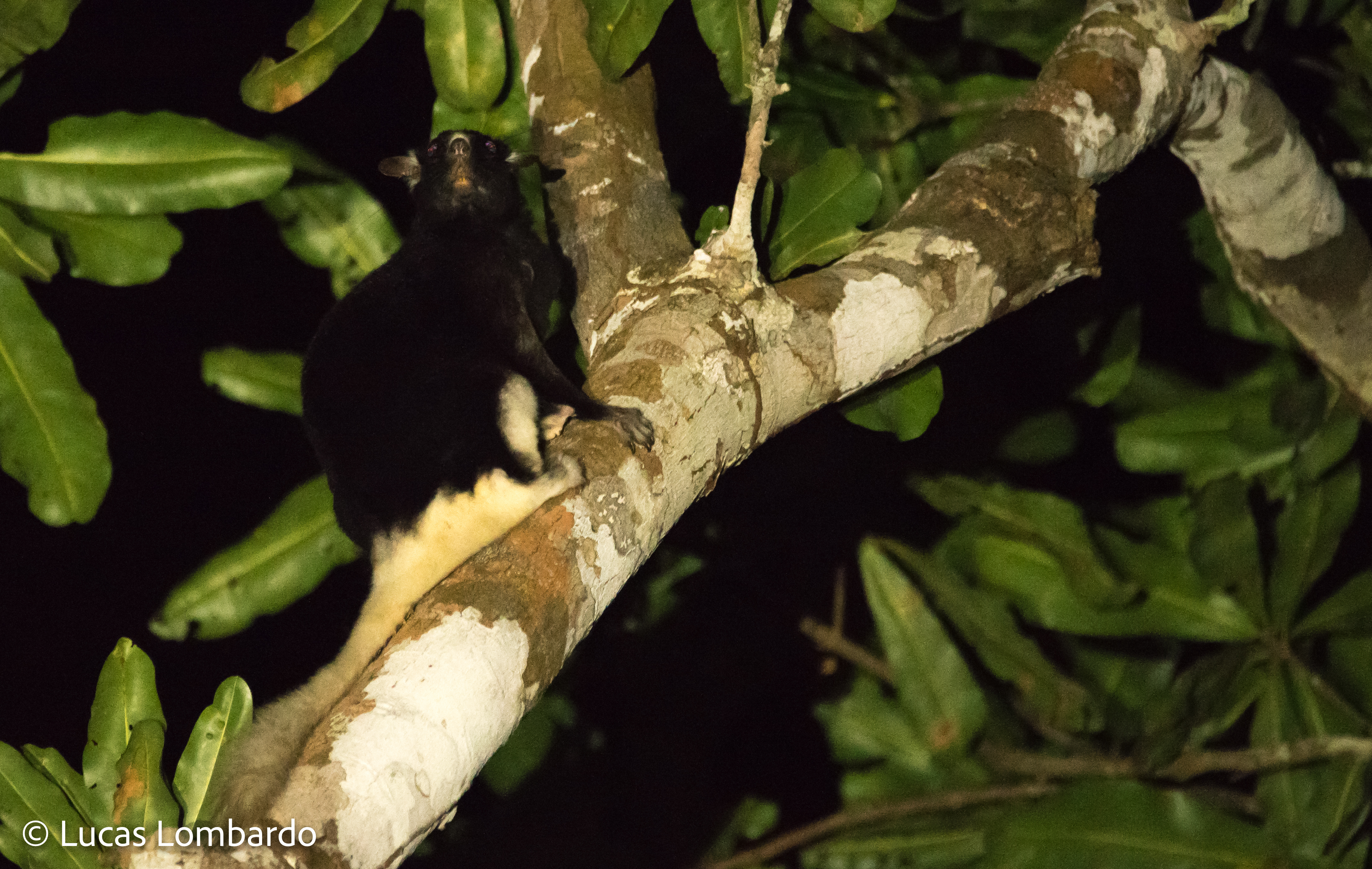 taken in Ankasa Conservation Area, Ghana